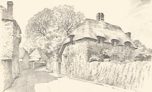 A post card of Edward Stott ARA Cottage at Amberley, West Sussex by R.H.Penton c 1929